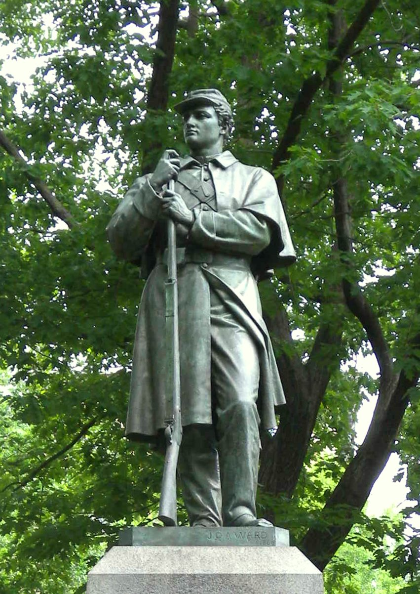 Looking east at 7th Rgt detail cropped from File:7th Rgt Mem W68 CP JQA Ward jeh.jpg